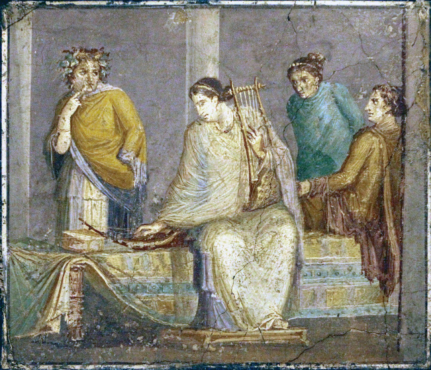 Woman with Cithara (right) and Sambuca (left). Fresco from Pompeii, 1st century CE (Naples National Archaeological Museum, Naples).